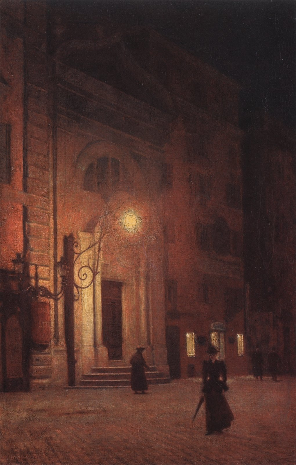 Street at night